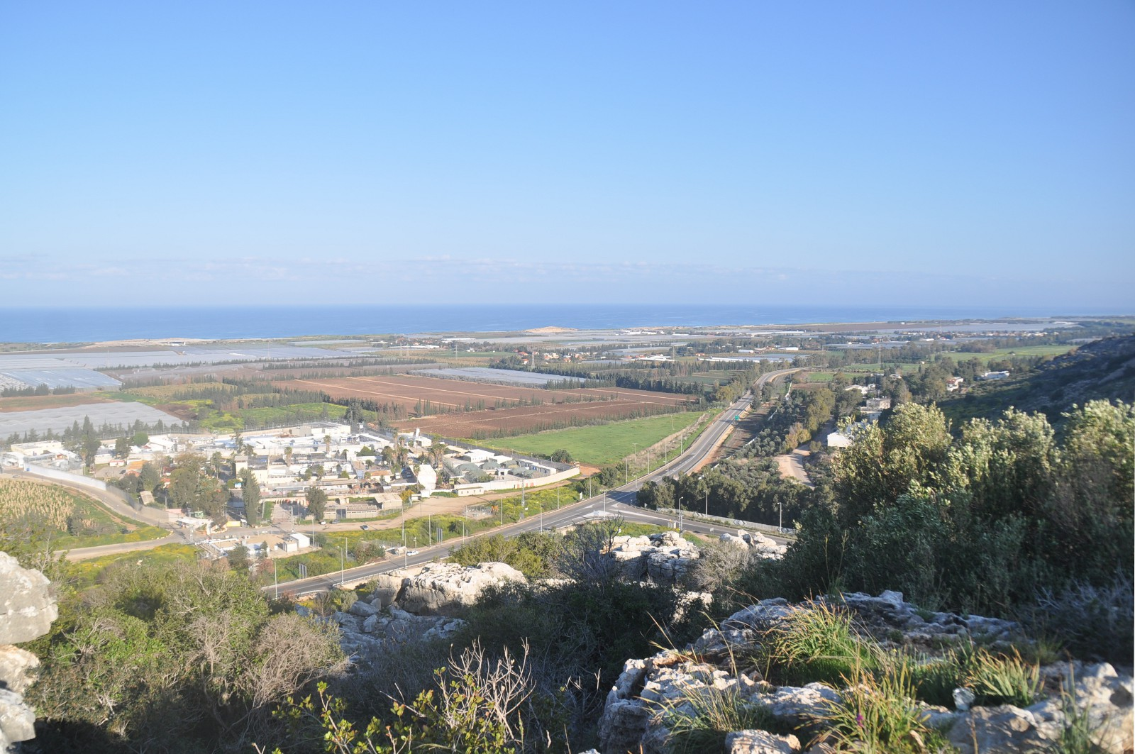 Geography of Israel